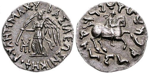 Antimachus II